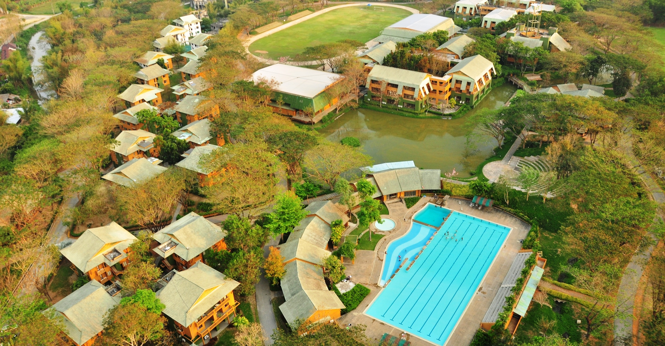 Prem Tinsulanonda International School Campus Arial View